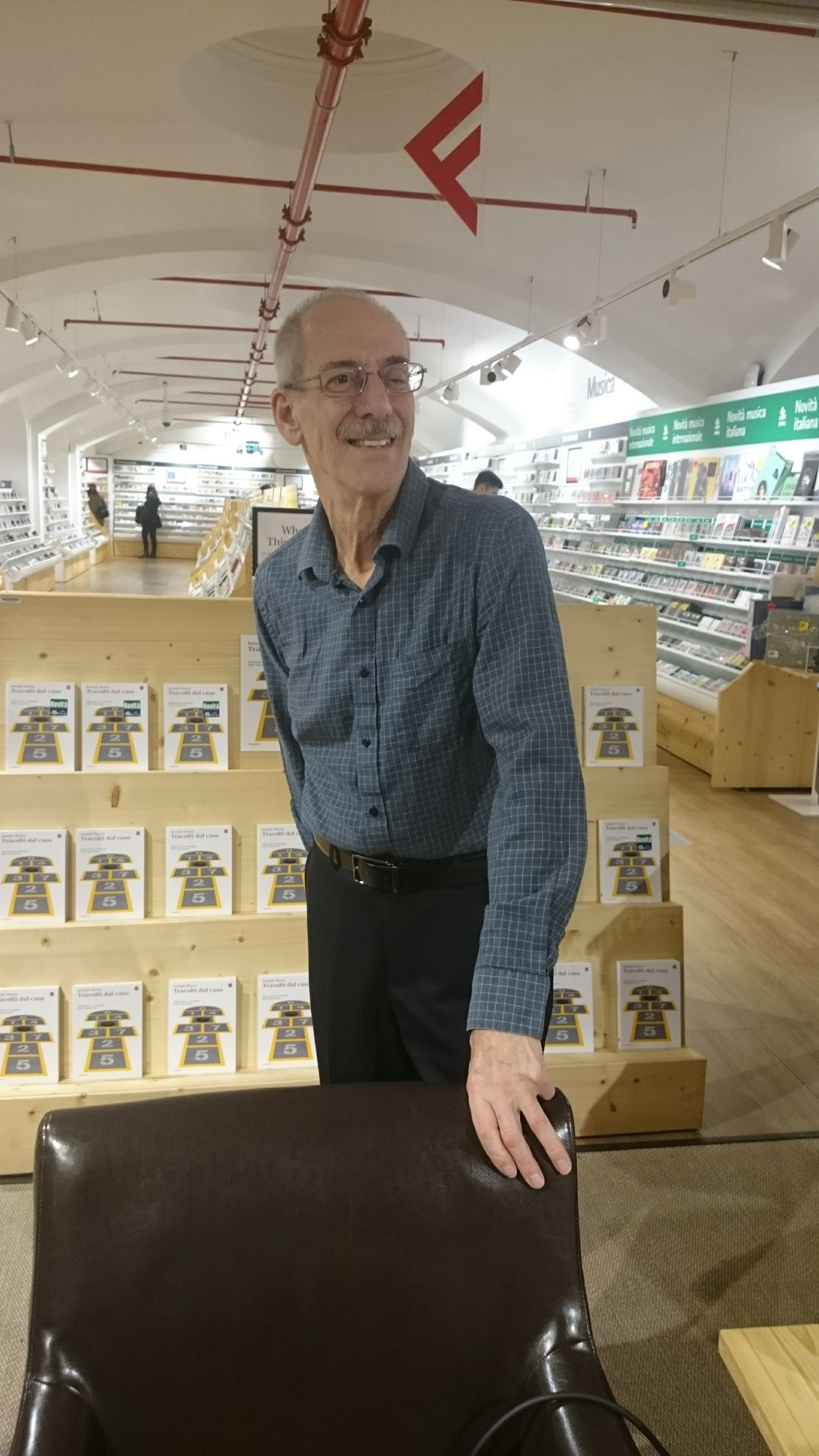 Joseph Mazur in Milano - Libreria Feltrinelli Duomo